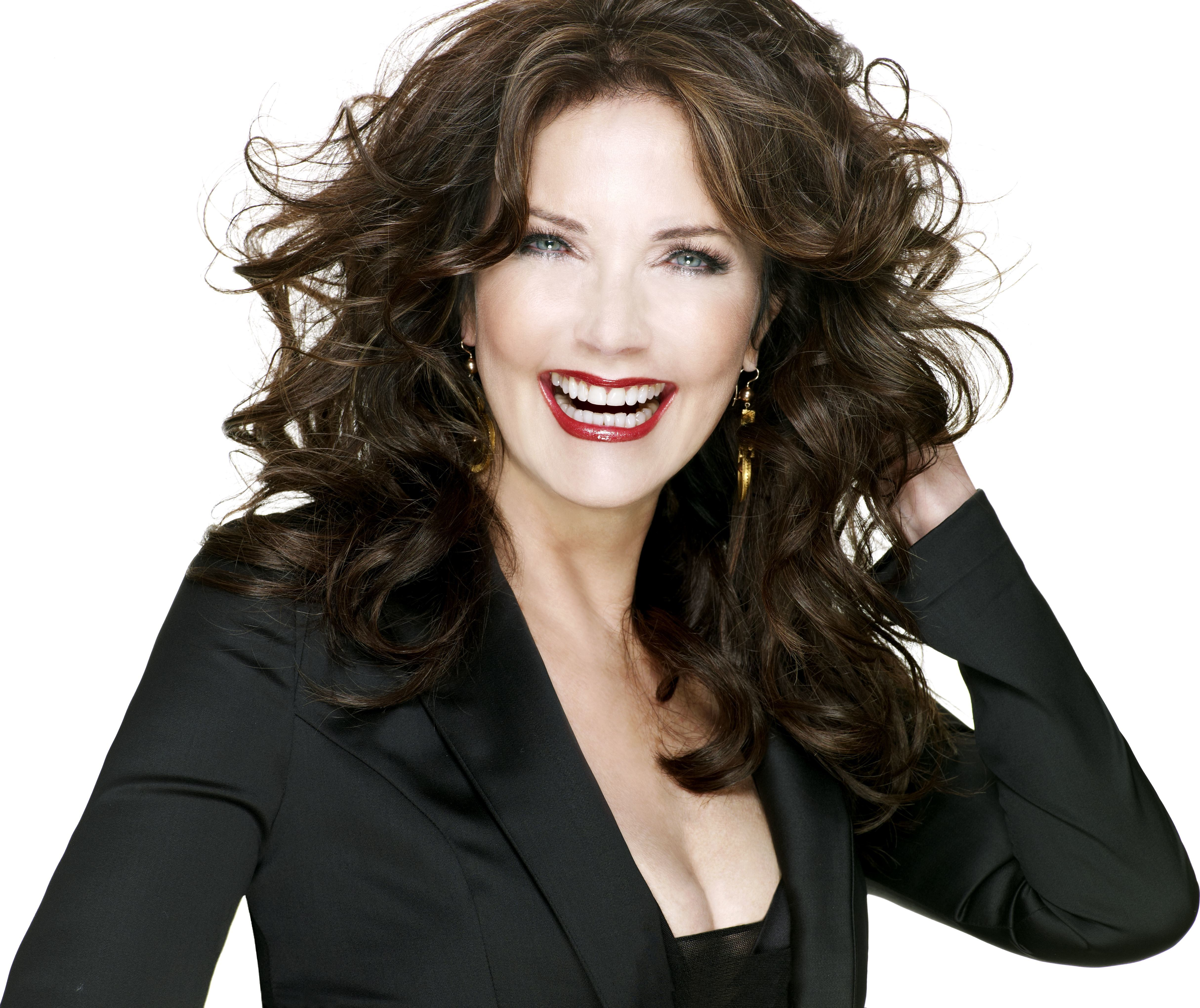 Photograph of Lynda Carter from JS² Communications.